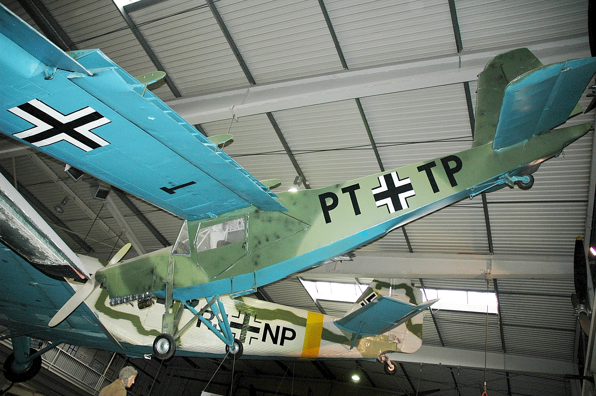 At the Technik Museum, Sinsheim, Germany. In false Luftwaffe markings PT+TP